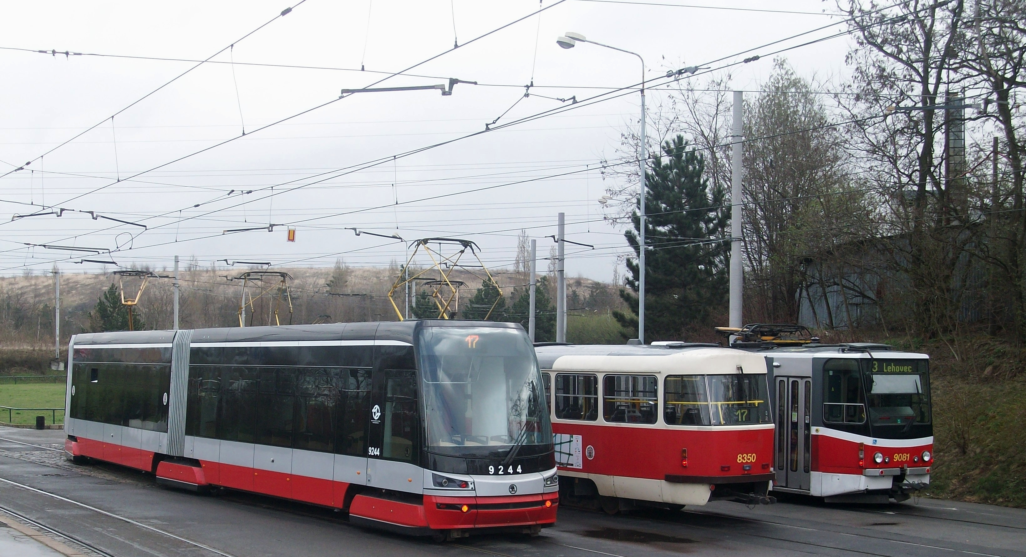 Škoda 15T, Tatra T3R.P & Tatra KT8D5R.N2P in Prague